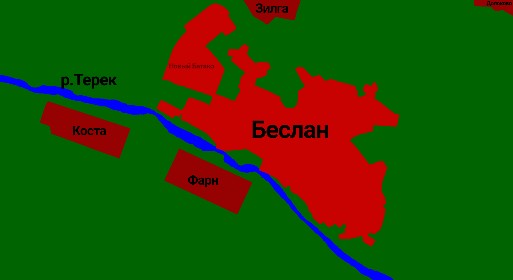 Map Beslan